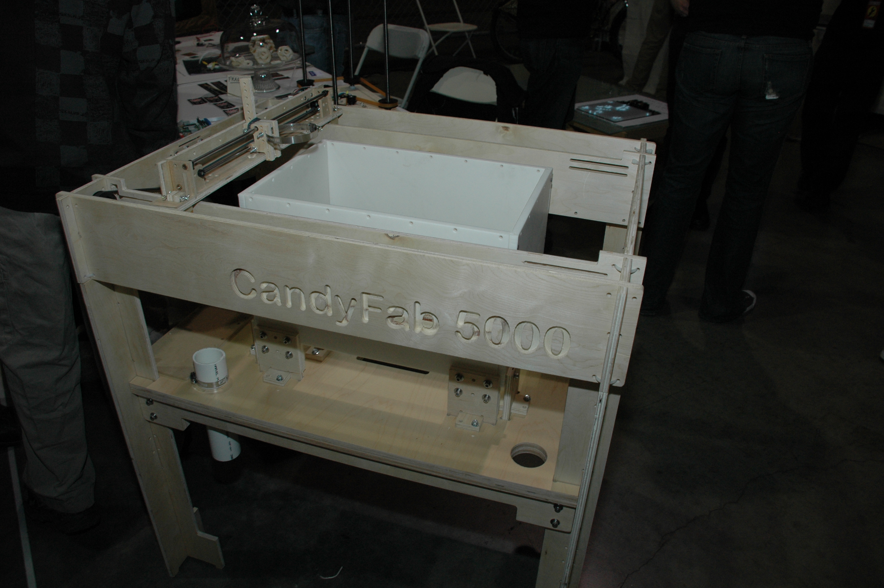 Maker Faire 2008, San Mateo. The CandyFab, a three-dimensional printer that prints in sugar.